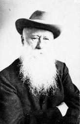 Black and white photograph of a man from the chest up. He is wearing a hat and sports a long white beard. His arms are crossed.